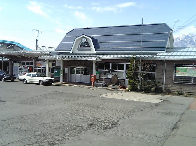 Kurohime Station in Shinano, Nagano Prefecture, Japan